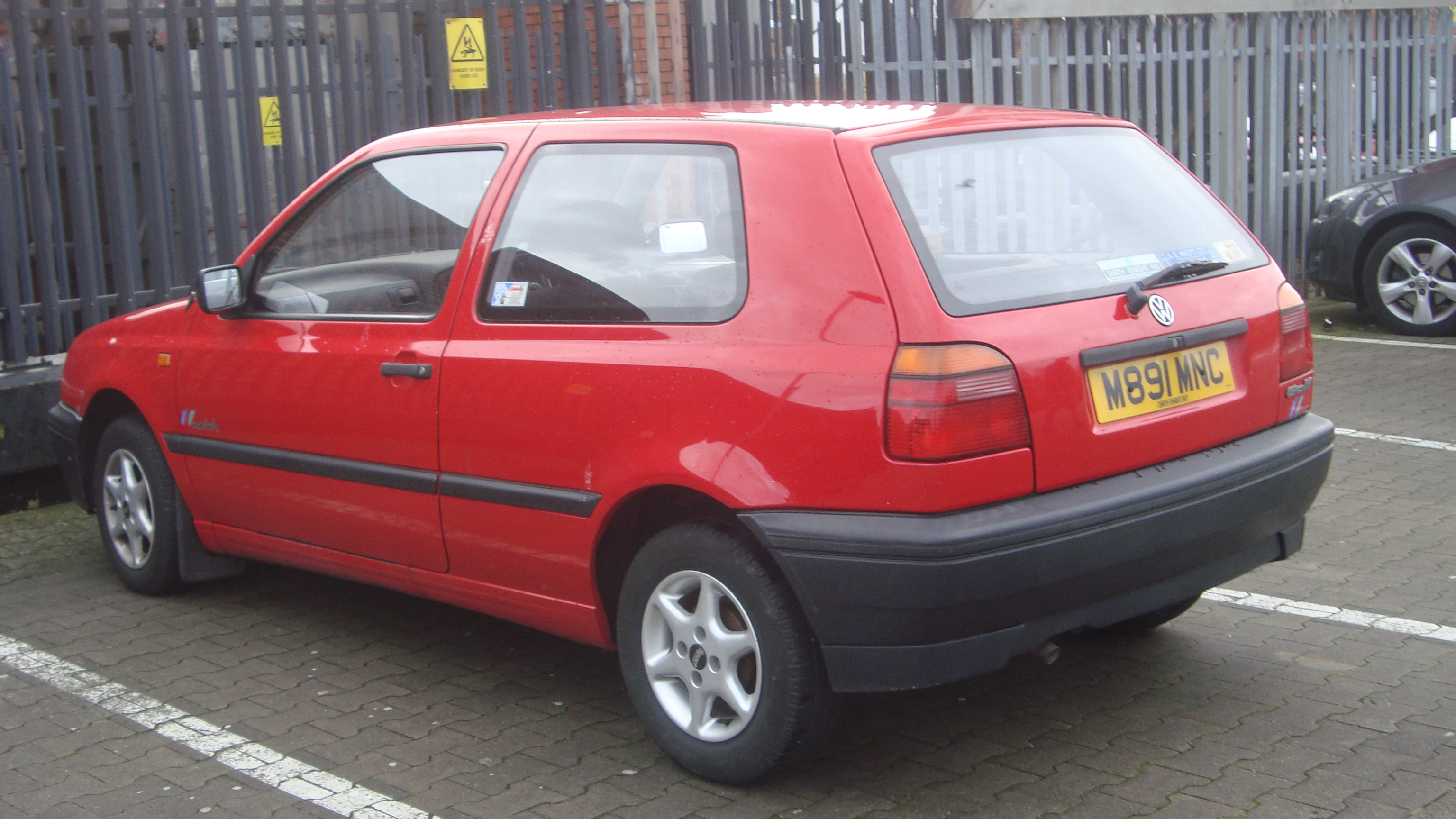 I don't normally photograph Mk3 Golf hatchbacks because they're still quite common considering their age, however this one looked a lot cleaner than the vast majority of survivors